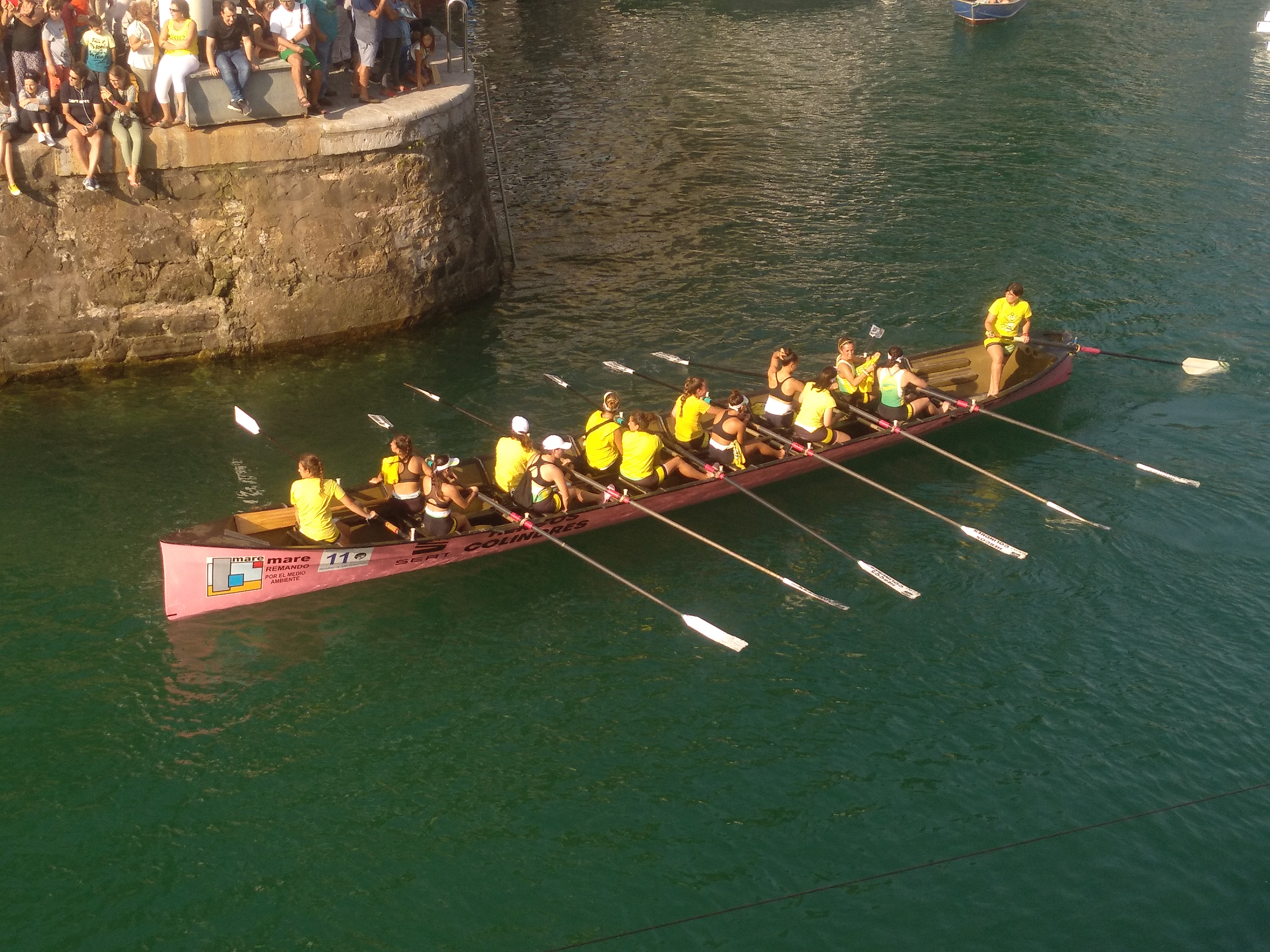 Club de Remo Colindres, women, Flag of La Concha, 2018